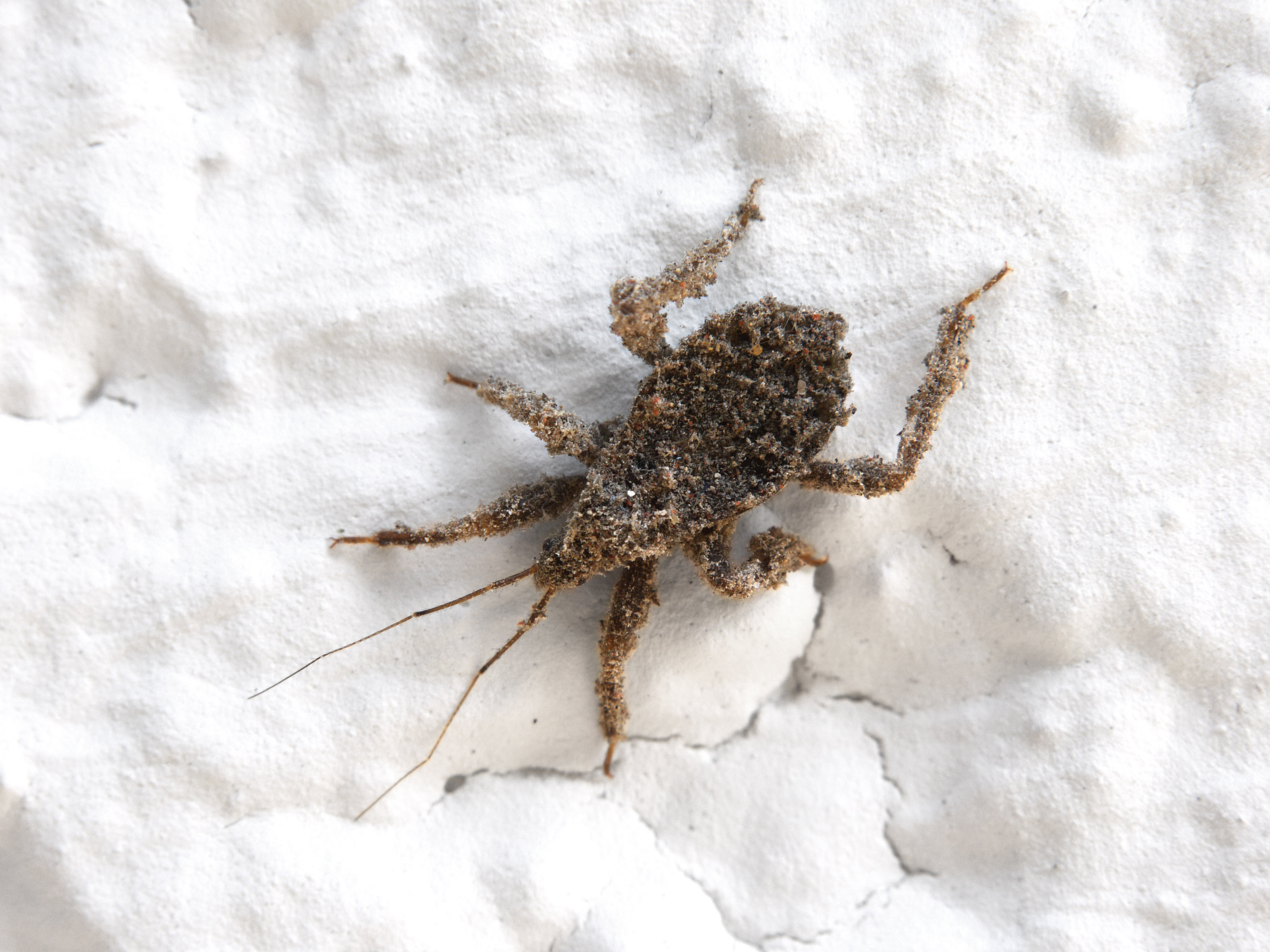 A nymph of a masked hunter (Reduvius personatus L. 1758) covered with sand particles, from Middle Franconia, Germany. Photographed using a telephoto lens and a close up filter (5 diopters).